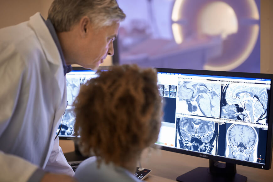 A radiologist interpreting MRI images.